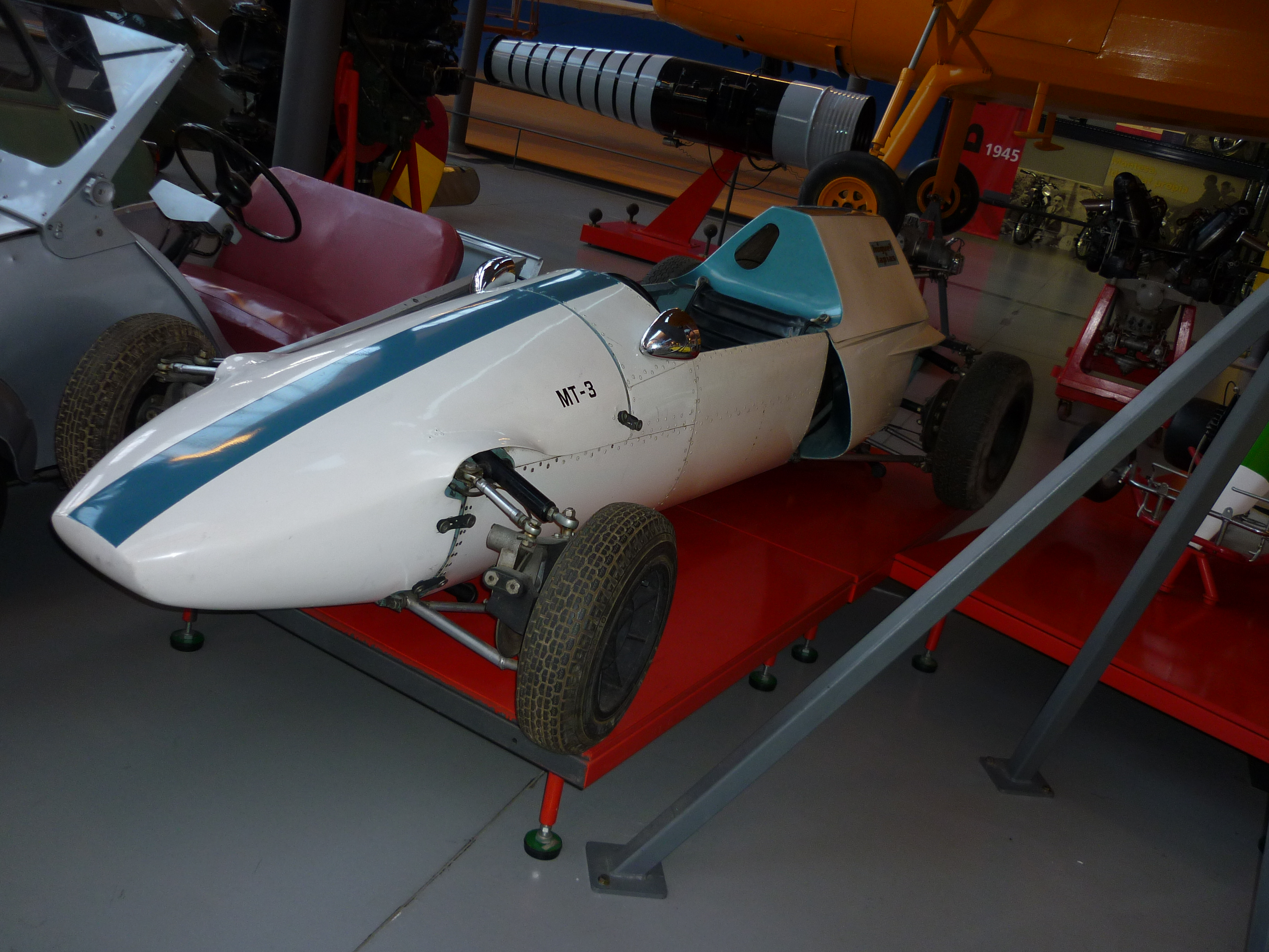 M Tapias "MT-3" racing car with a 250cc Bultaco engine (1965)